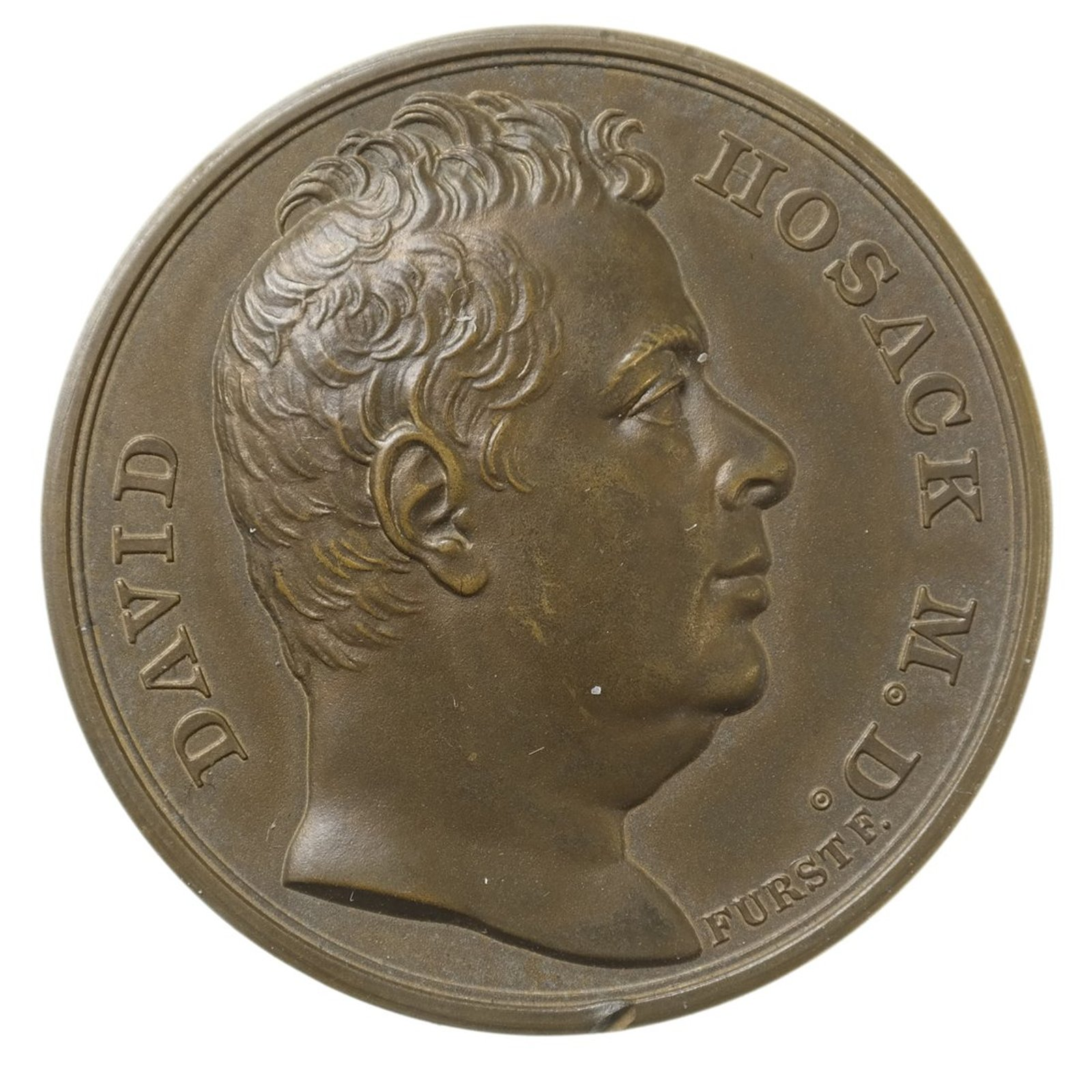 Medal depicting David Hosack, M.D. (1769–1835). Engraved portrait by Moritz Fürst (1782–1840), issued circa 1820 by the United States Mint. Copper bronzed medal, 33.6mm.